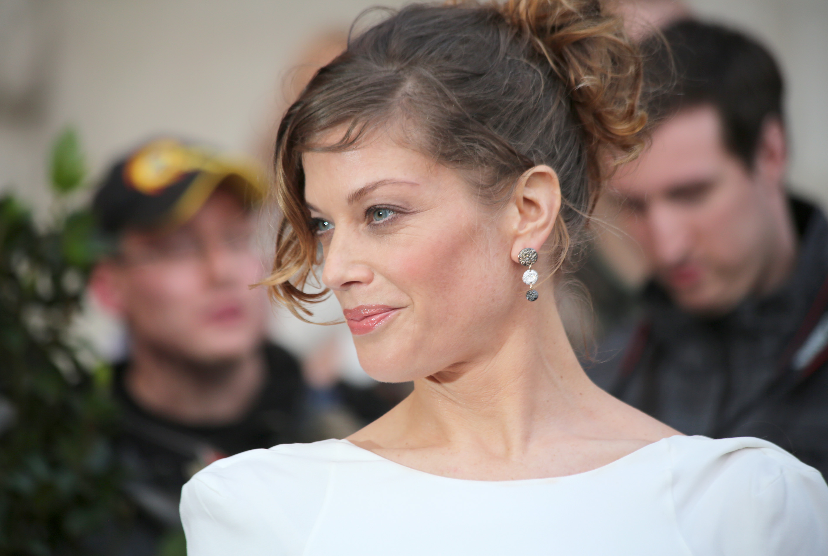 Marie Bäumer at the Romy film awards (Hofburg Imperial Palace in Vienna)